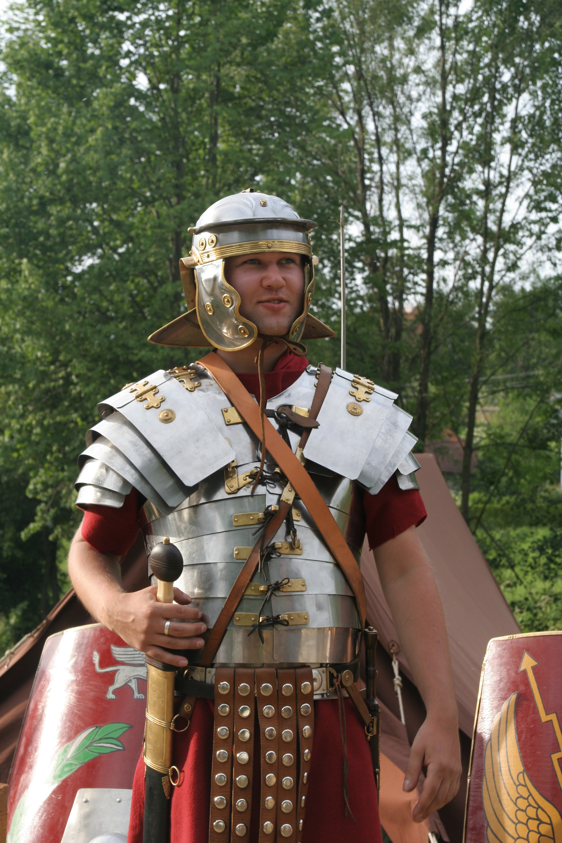 ROman soldier in lorica segmentata Photographed by myself during a show of Legio XV from Pram, Austria